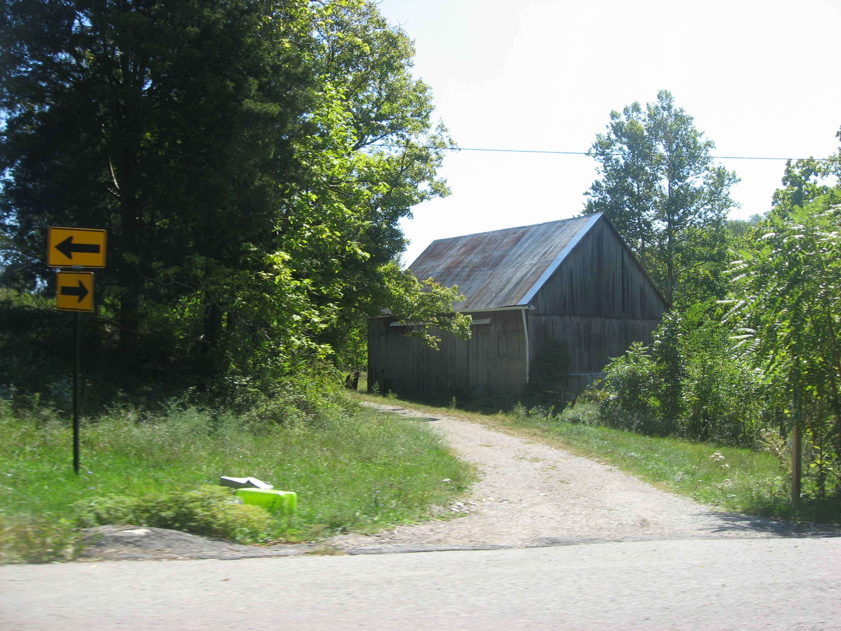 A barn at the Beard-Kerr Farm, located at 502 Georgetown-Lanesville Road southwest of Georgetown in Georgetown Township, Floyd County, Indiana, United States. Built in 1935, the barn and the rest of the farm are together listed on the National Register of Historic Places.